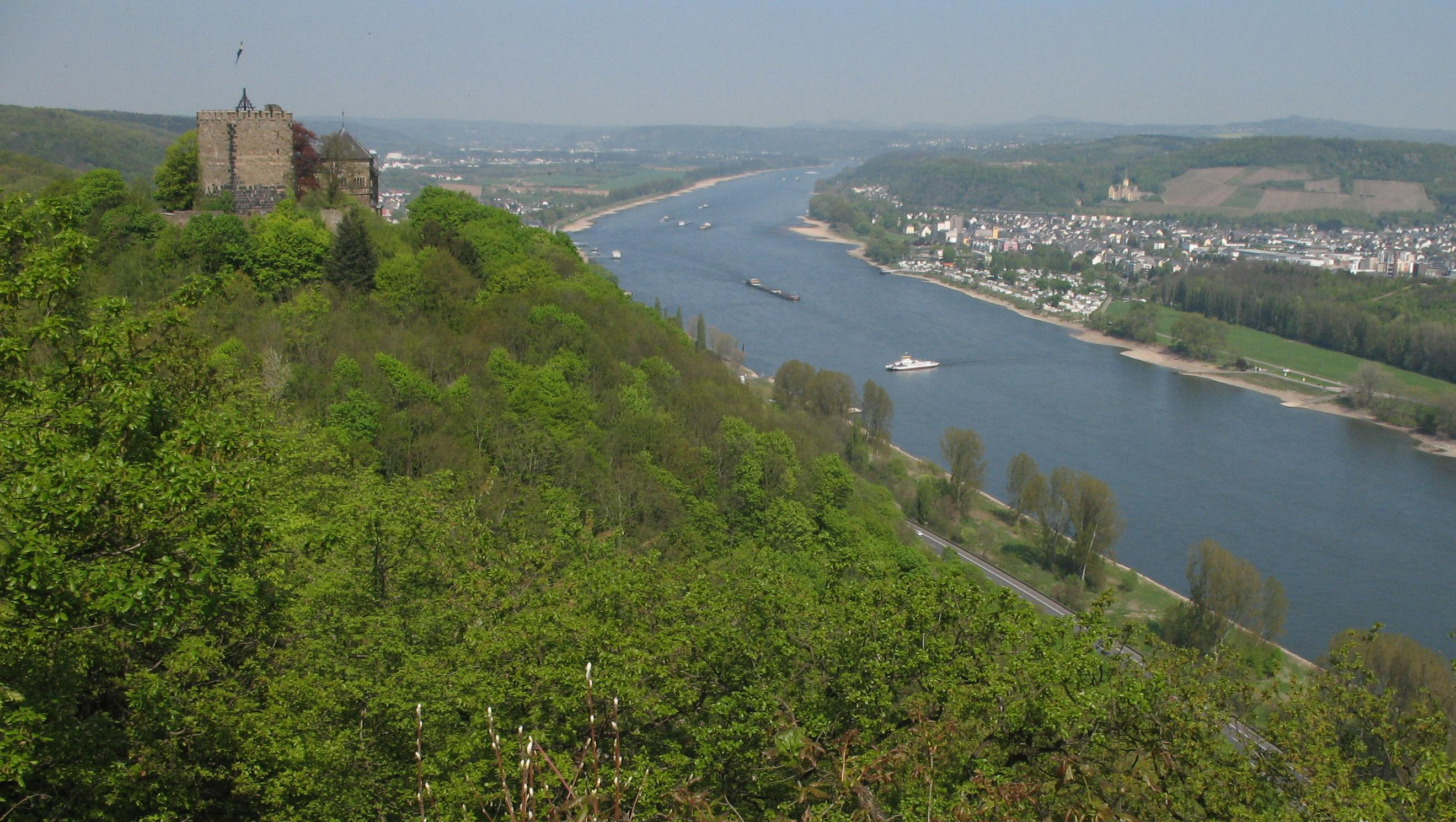 View from Reuterslei in Bad Breisig in Rhineland-Palatinate, Germany